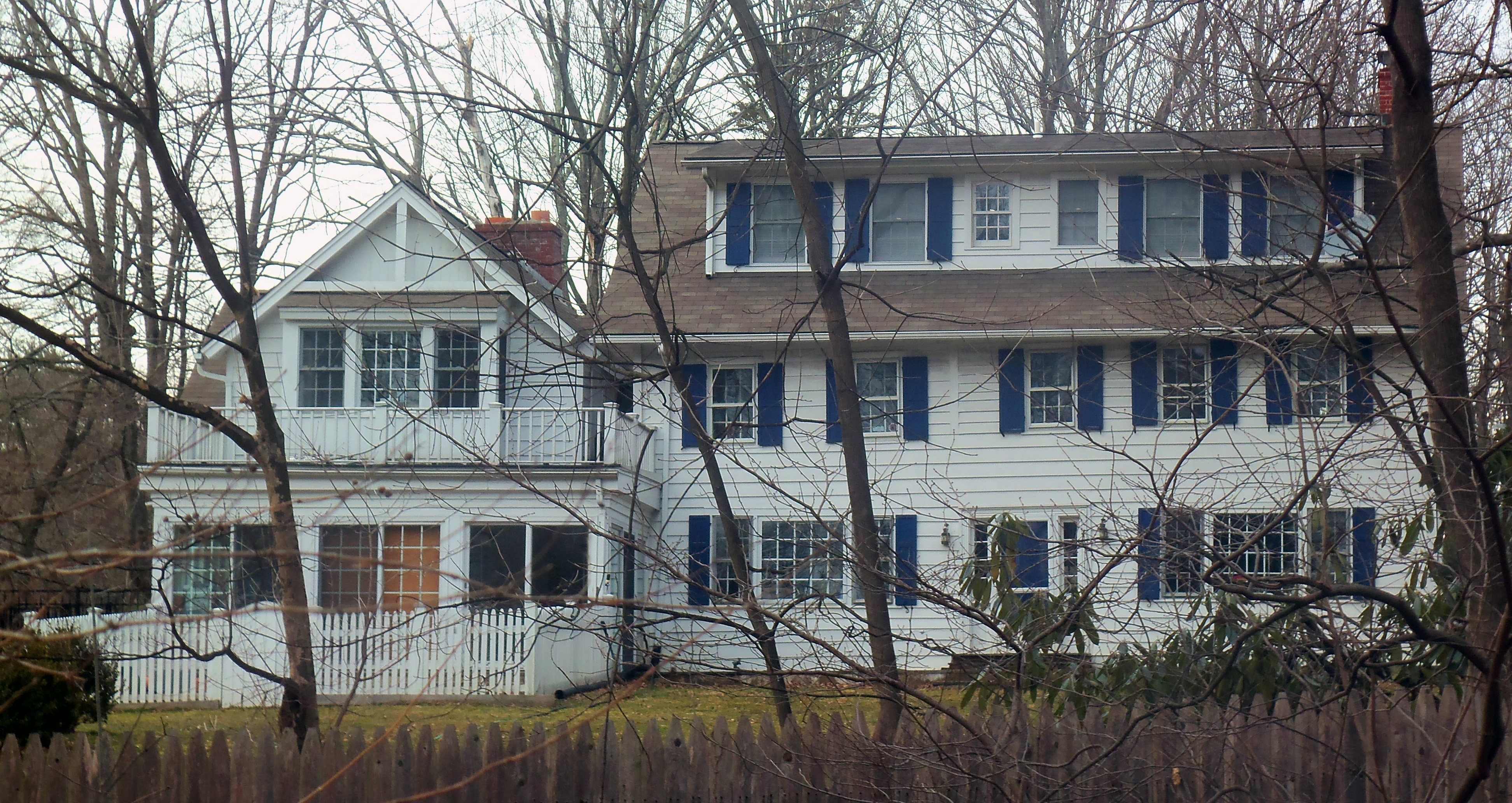 Sutton–Reynolds Farmhouse, a contributing property to the Old Chappaqua Historic District, New Castle, NY, USA